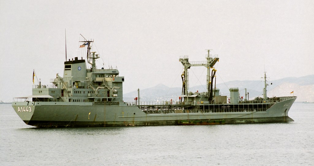 German Navy Klasse 704 fleet tanker Rhön, A-1443, part of NATO SNMG-2, outside Piraeus Harbour, Grecce.